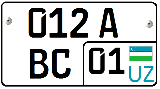 State vehicules license plate in Uzbekistan, American Standard size